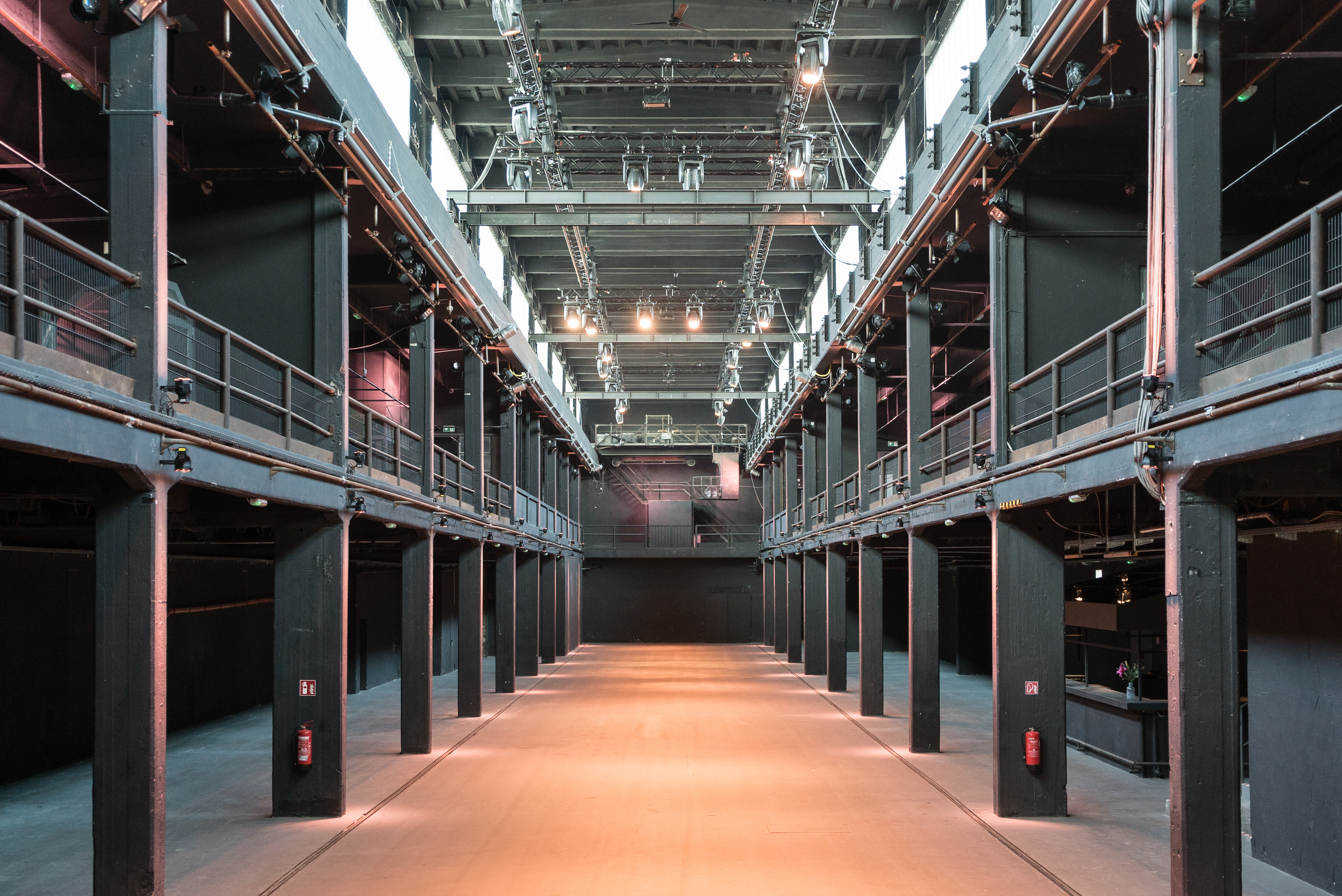 View of a former construction hall for electrical engines, which serves as event location today.